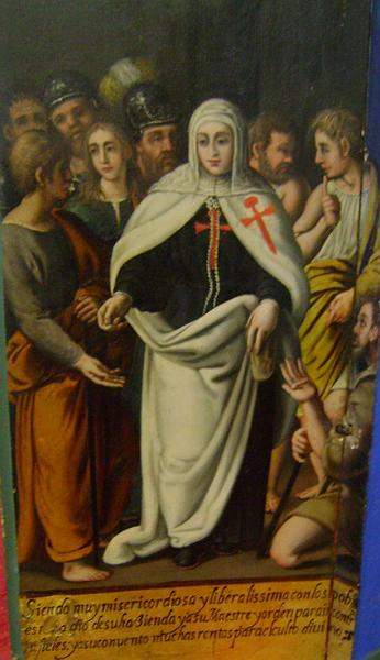 Venerated Sancha Alfonso helping beggars, Painting of 17th cent. in a reliquary at Monastery of the order of Saint James at Toledo